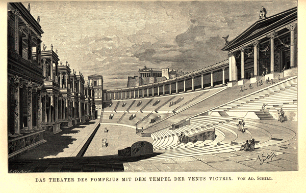 Interior of the Theatre of Pompey. Ad. Schill